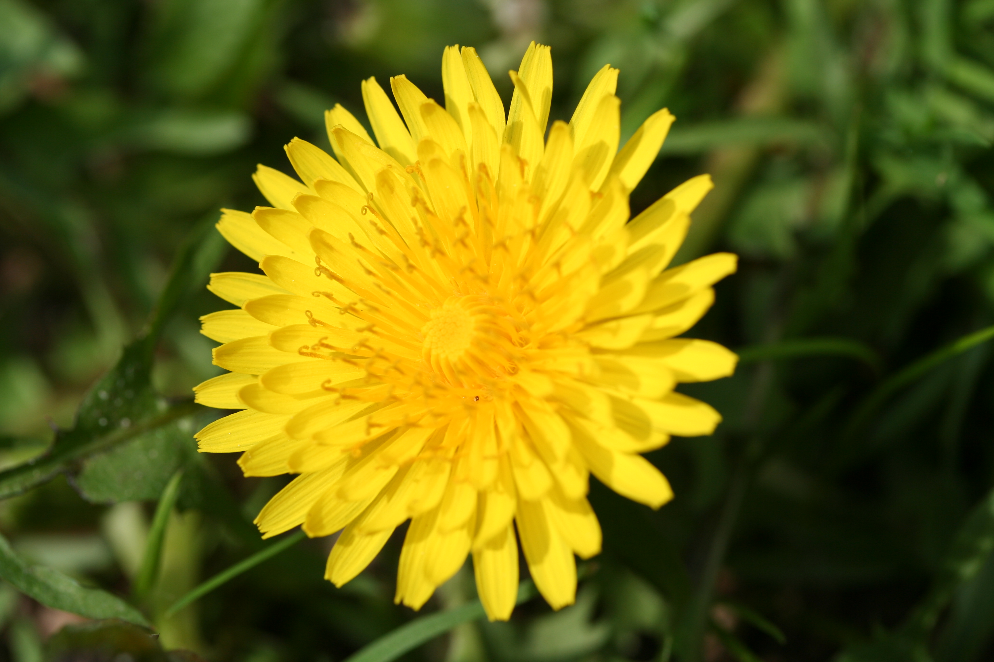 Taraxacum officinale 6 may 2006 IJmuiden, the Netherlands